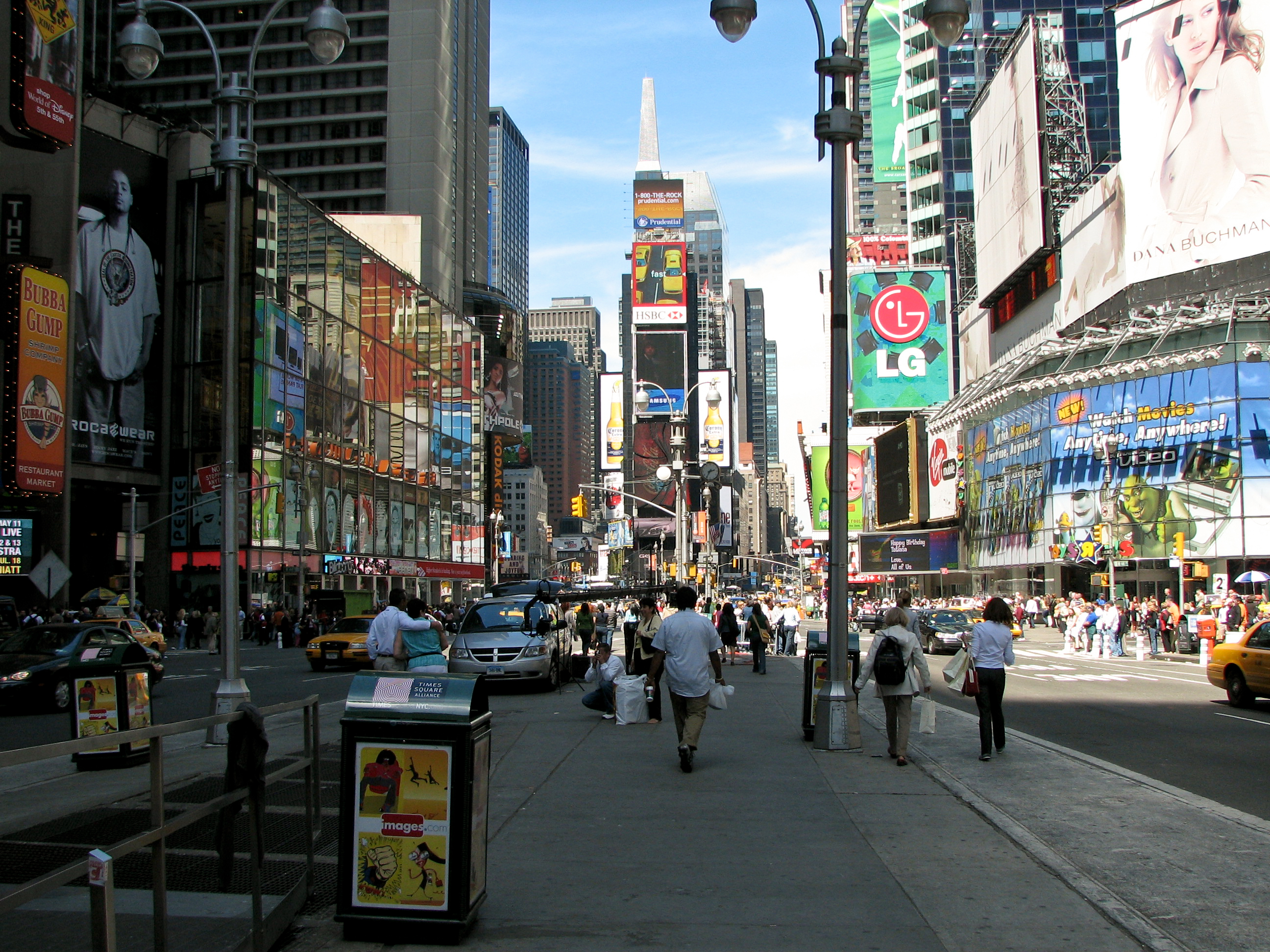 New York City - Times Square